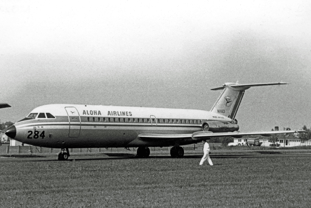 Aloha Airlines BAC 1-11 series 215AU N11183 at the Paris Air Show in 1967